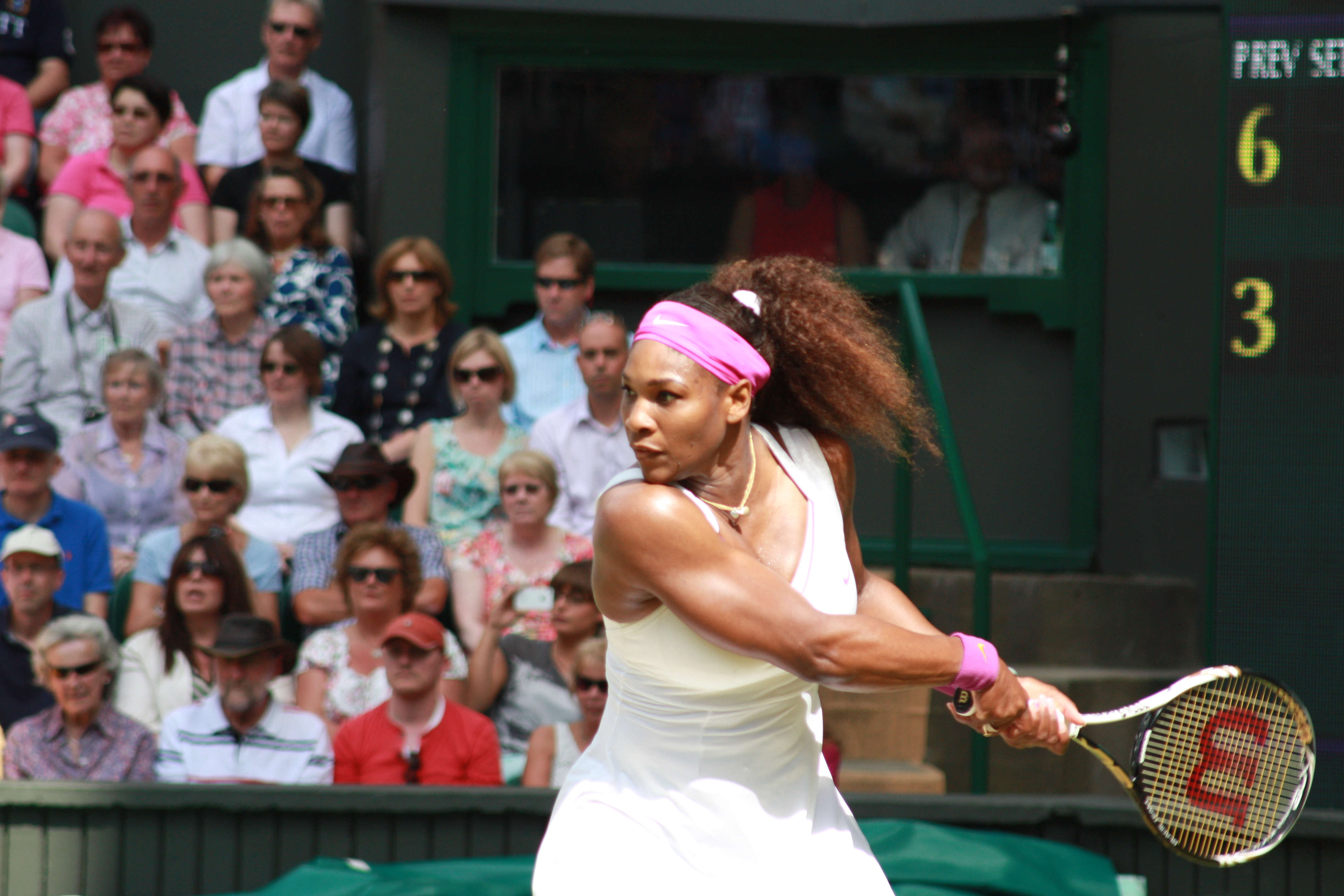 The Championships, Wimbledon 2012 Day 10, Serena Williams in her semifinal match against Victoria Azarenka